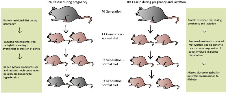 Protein-restricted (PR) diets fed to maternal mice leads to transgenerational effects in the offspring, up to the F3 generation depending on the length of protein restriction. All offspring are adequately fed, i.e. are not on a PR-diet. Grey mice represent wild-type phenotypes and pink mice represent offspring with either a genetic predisposition to hypertension (maternal rat fed PR-diet during pregnancy) or diabetes (maternal rat fed PR-diet during pregnancy and lactation). Mechanisms behind PR-diets are only proposed, as further research is needed to confirm their exact pathways